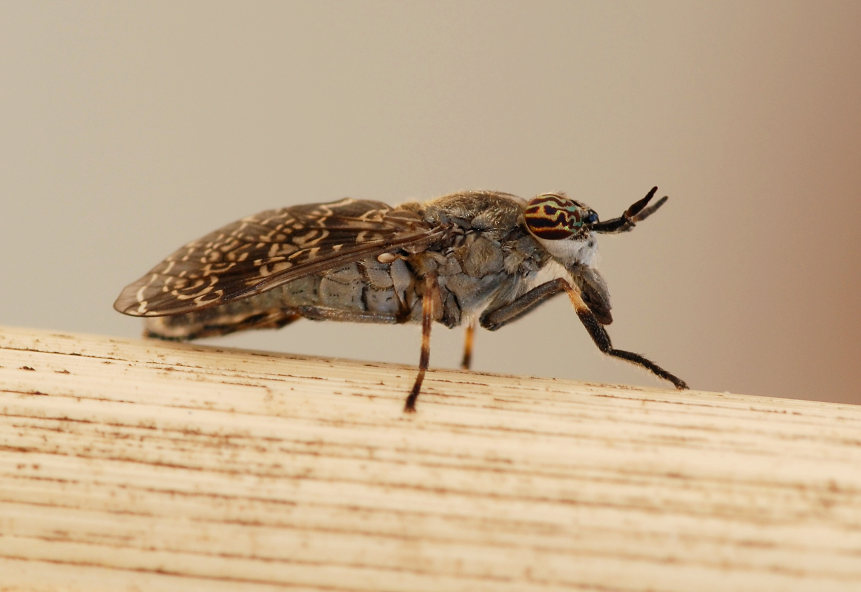 Cleg-fly (Haematopota pseudolusitanica).